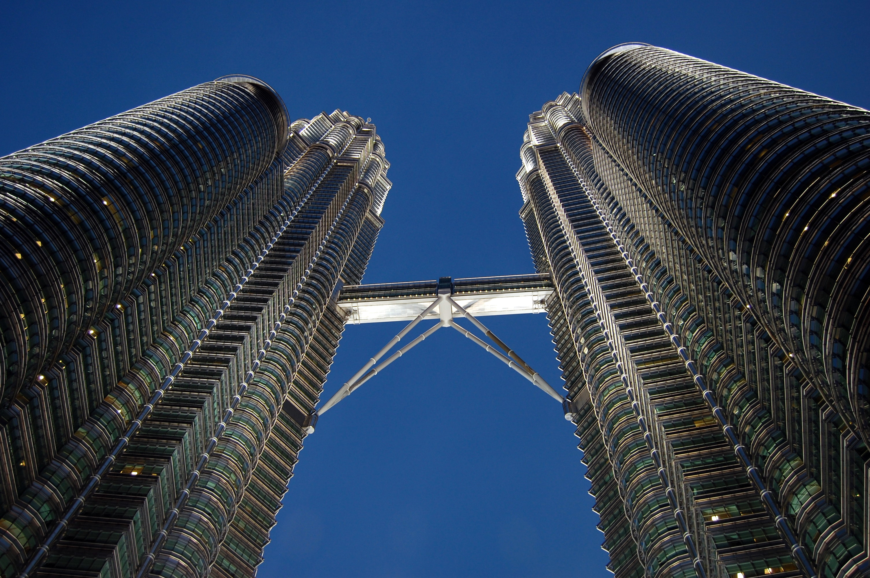 This 451.9-meter building is the second tallest building and the tallest twin towers worlwide. The towers are joined together by a Skybridge which is the highest suspended bridge in the world. Related reading at Nikon D40 (DTP Course on Trade and Human Rights, March 2008).